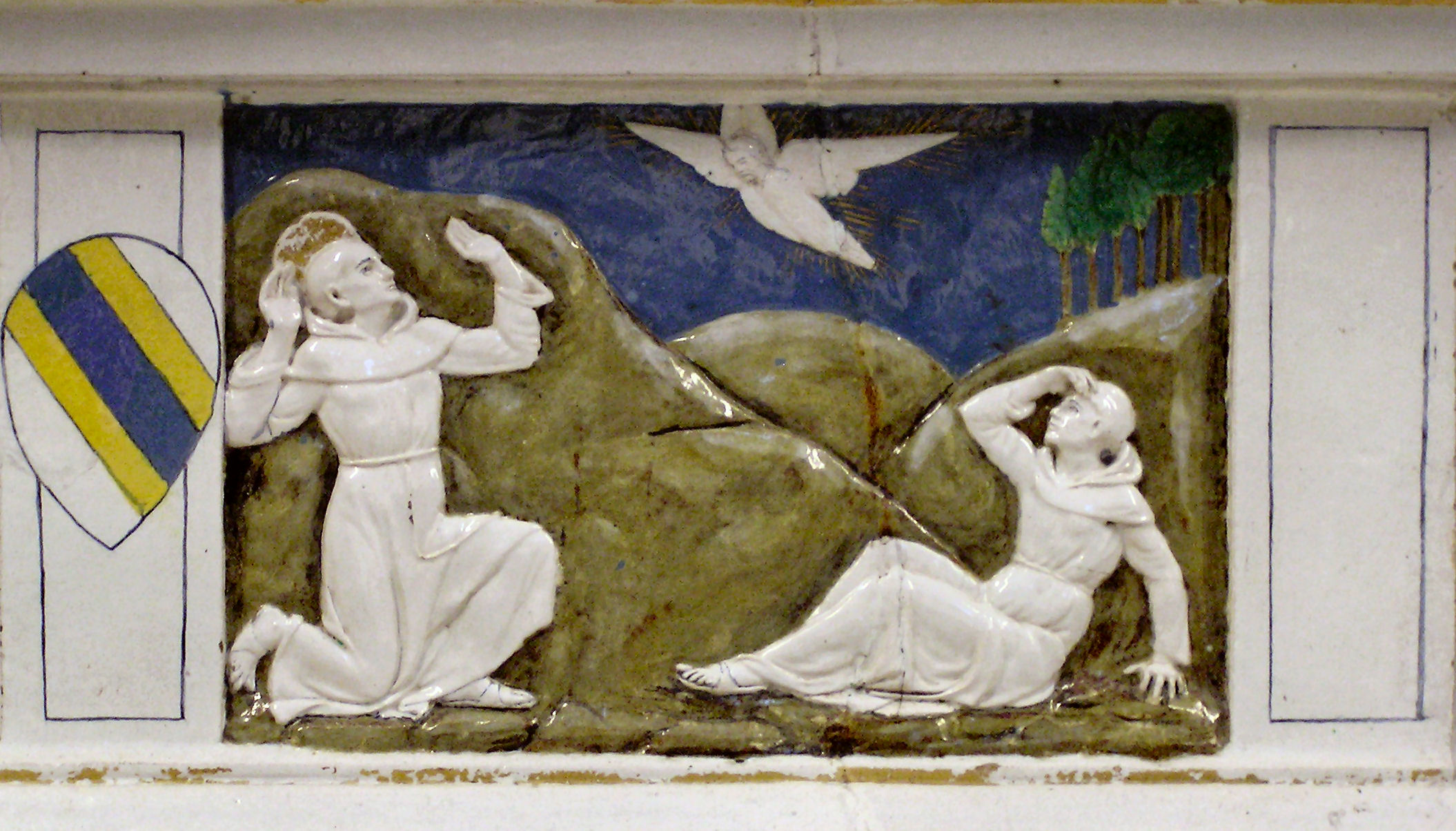 Andrea della Robbia: Virgin and Child with St. Francis and St. Cosmas (?), detail: Stigmata, Florence c. 1470, terracotta; from the Villa Sassetti in Varramista (Palaia)